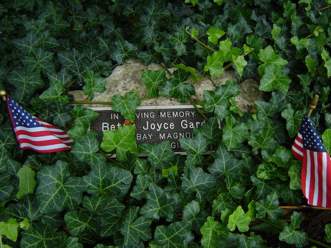 Detail of a memorial tablet in the Botanical Garden, Peoria Il. USA. This is not a memorial garden - it is a regular botanic garden - but this little plaque caught my eye. If you know what the full inscription says and who it commemorates please add that information.